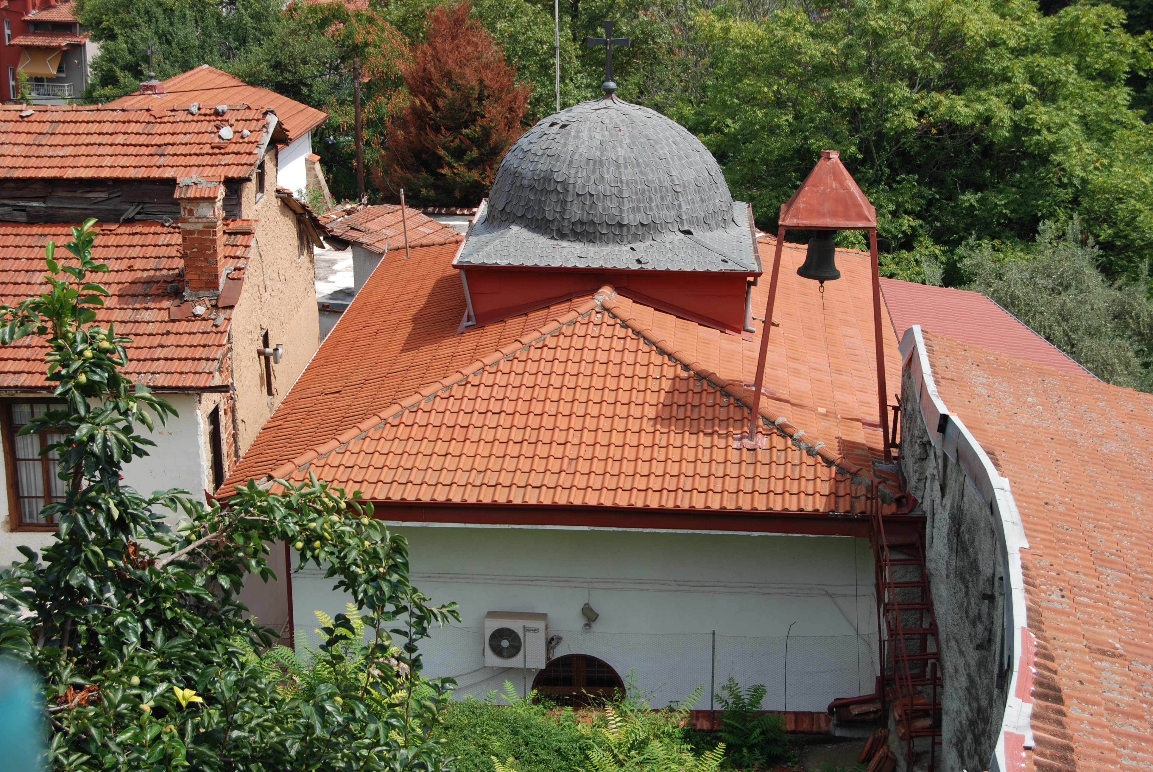 Buildings in Naousa